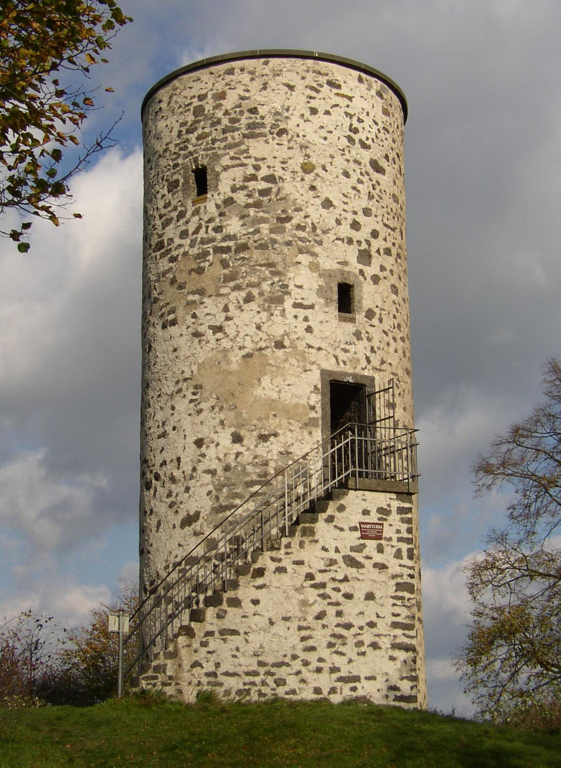 Tower in Grünberg in Hesse, Germany